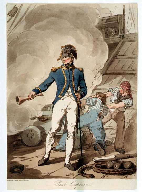 J.A. Atkinson: Costumes of Great Britain No 3 1807: Post-captain; etching, coloured